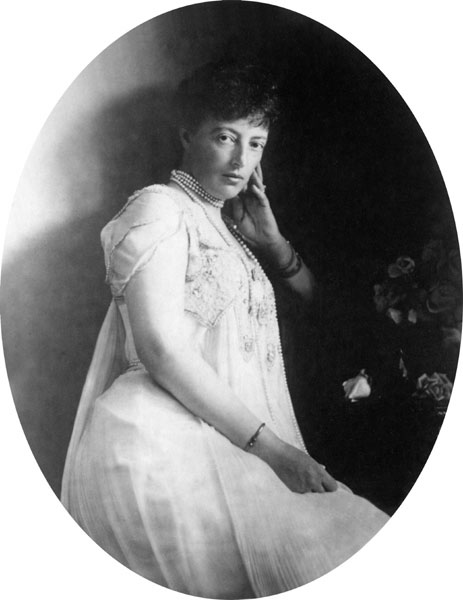 Anastasia Mikhailovna Grand Duchess of Mecklenburg-Schwerin